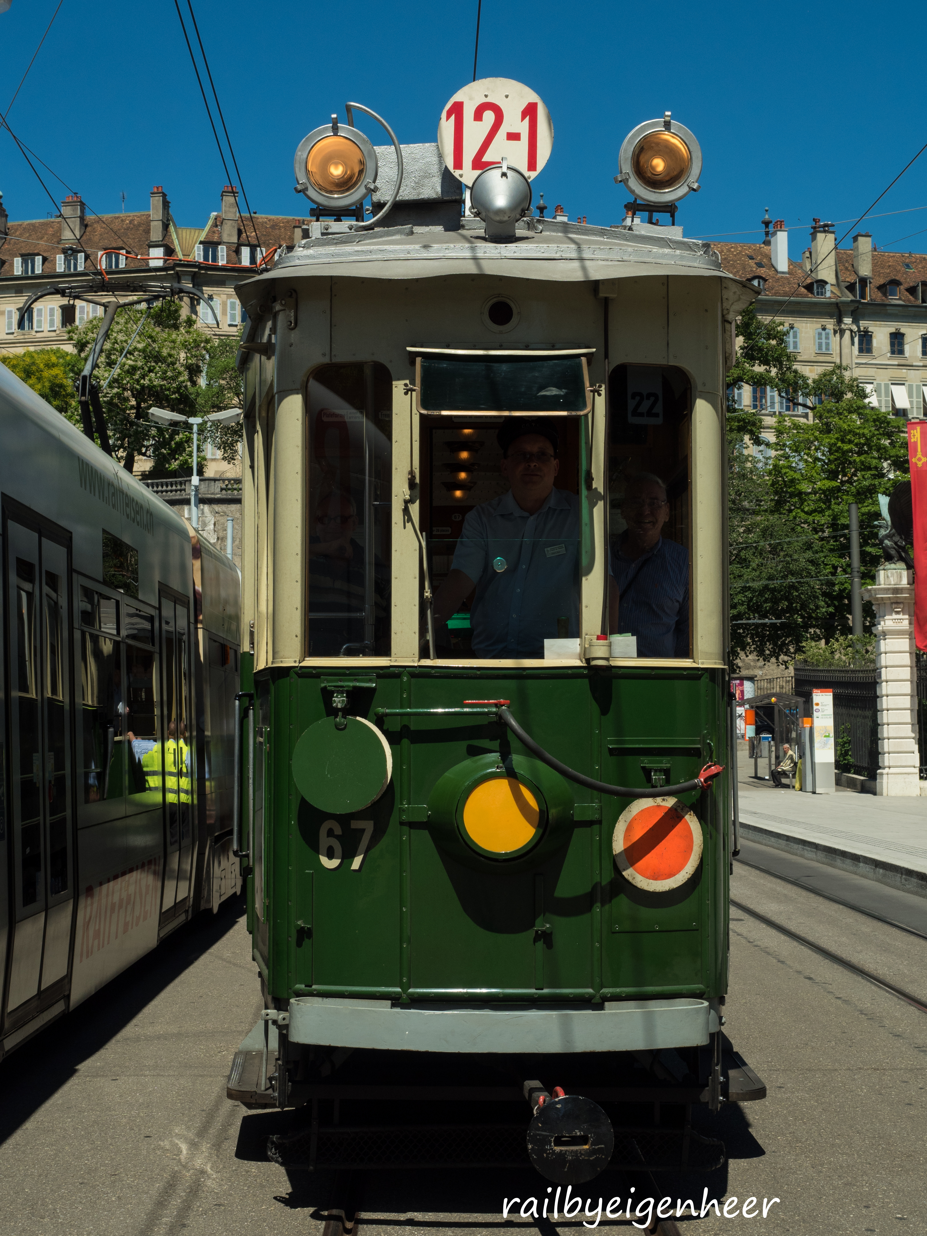 Genève 03.07.2016